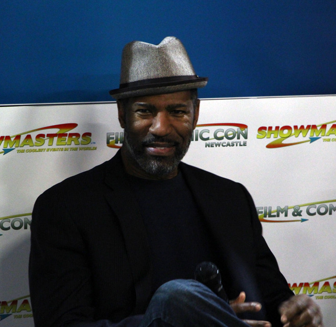 Ricco Ross at Convention